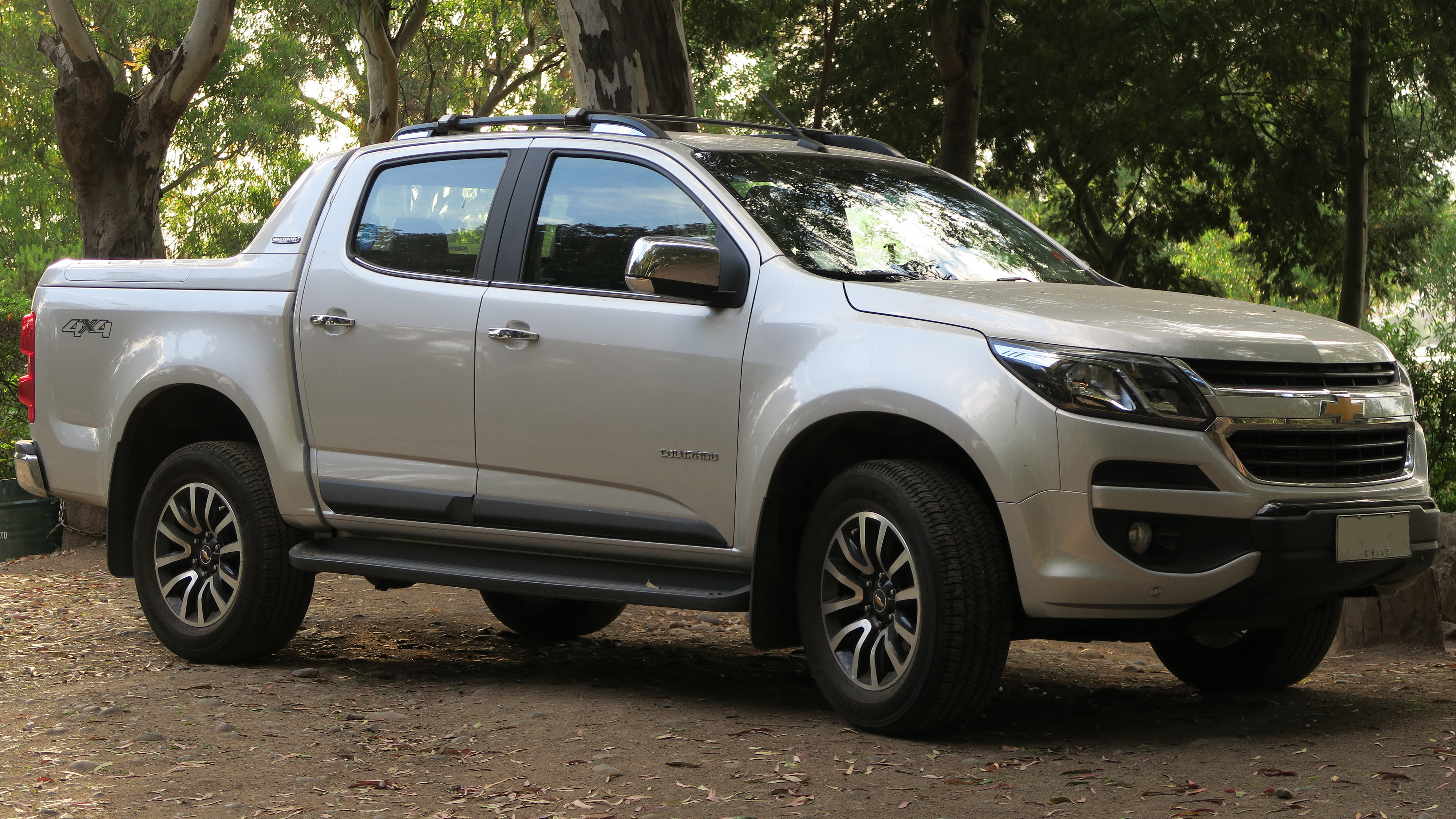 Chevrolet Colorado High Country 2018